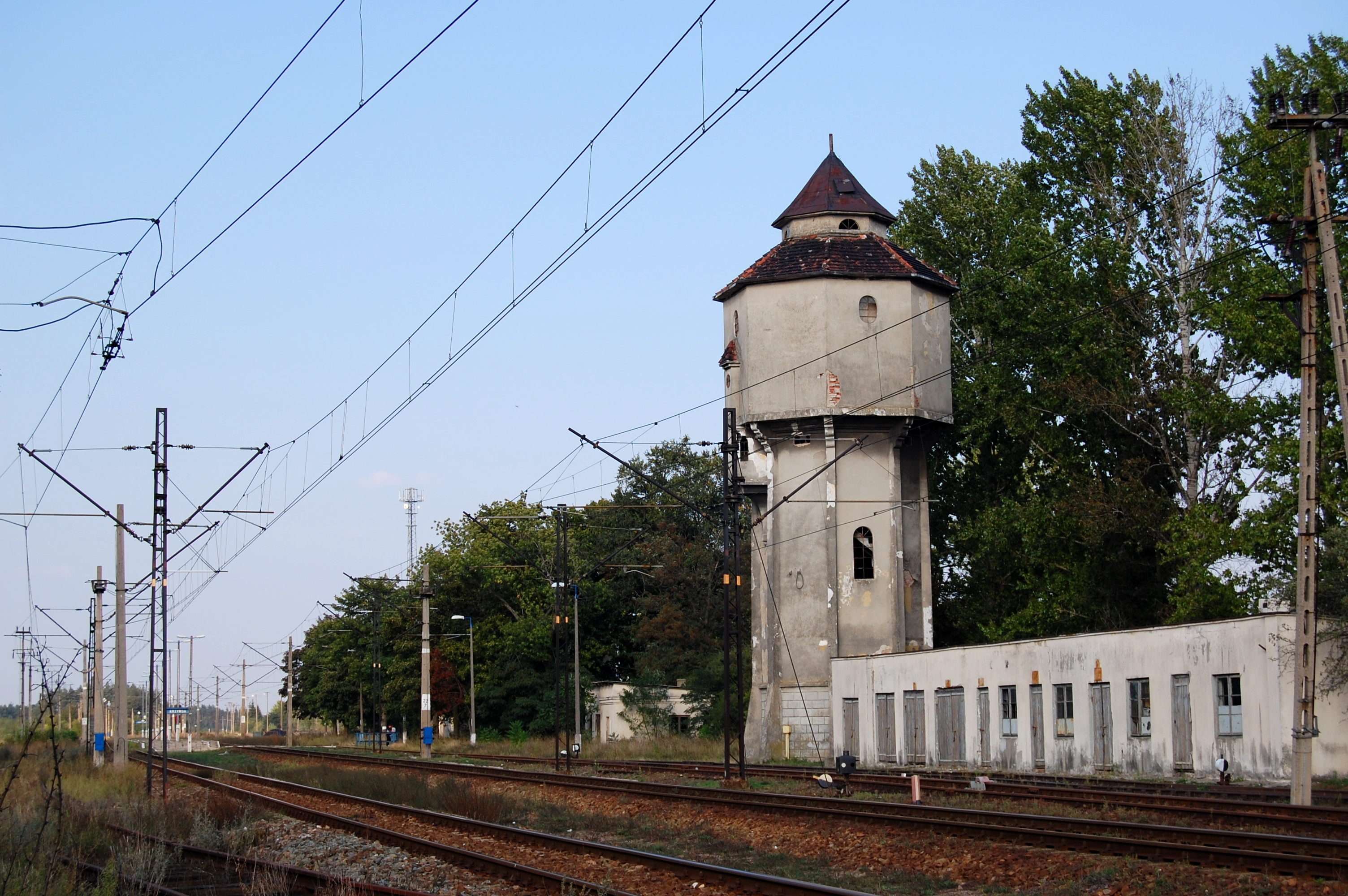 Railway in Krzywda, Lublin Voivodeship, Poland.